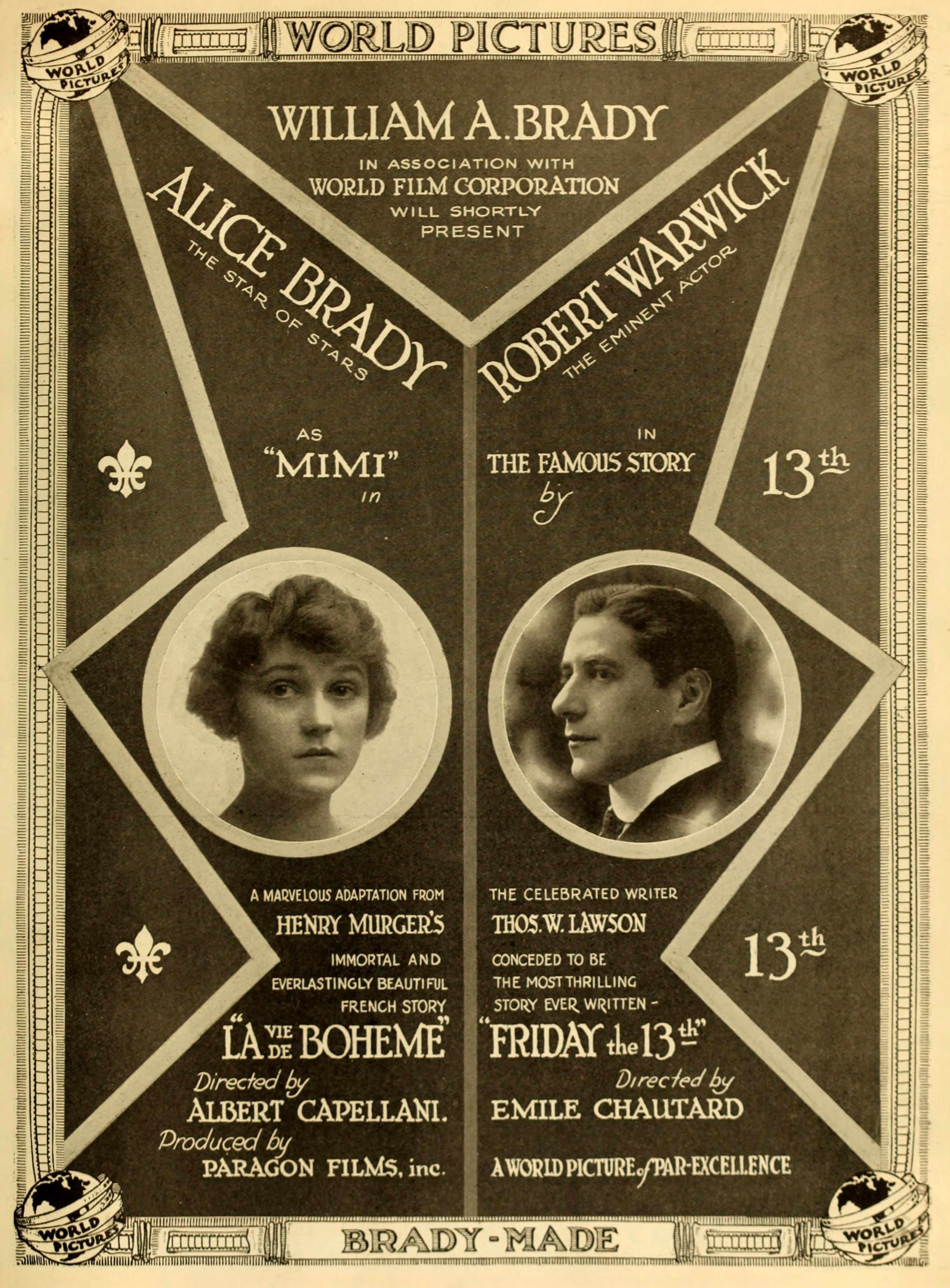 Advertisement in The Moving Picture World for La Bohème and Friday the 13th.